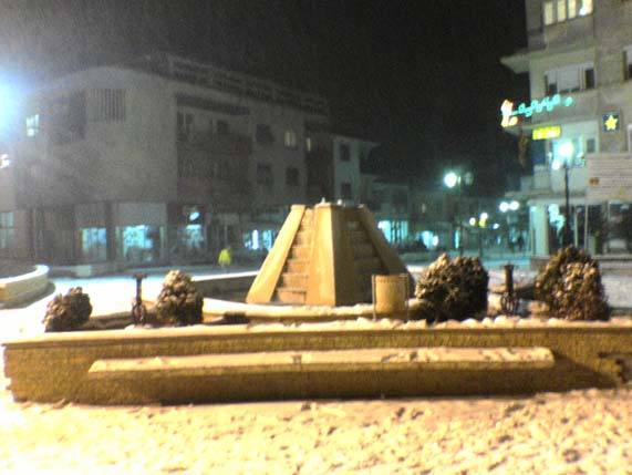 A detail in the town of Radoviš, Republic of Macedonia.